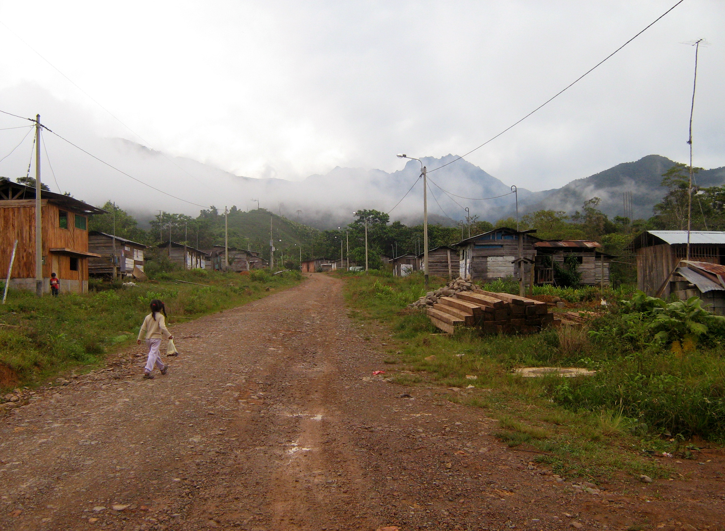 Please, have this description accessible to all by translating it in different languages.